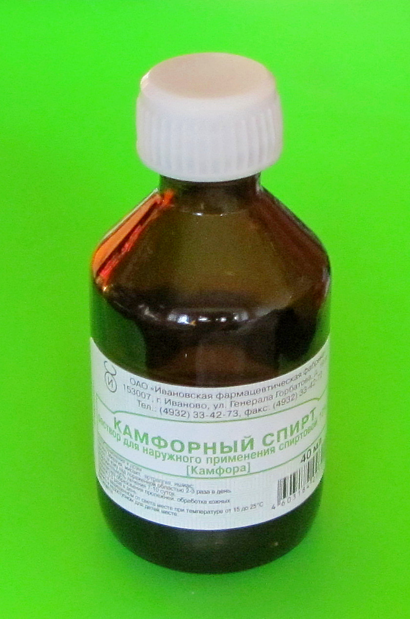 Camphor